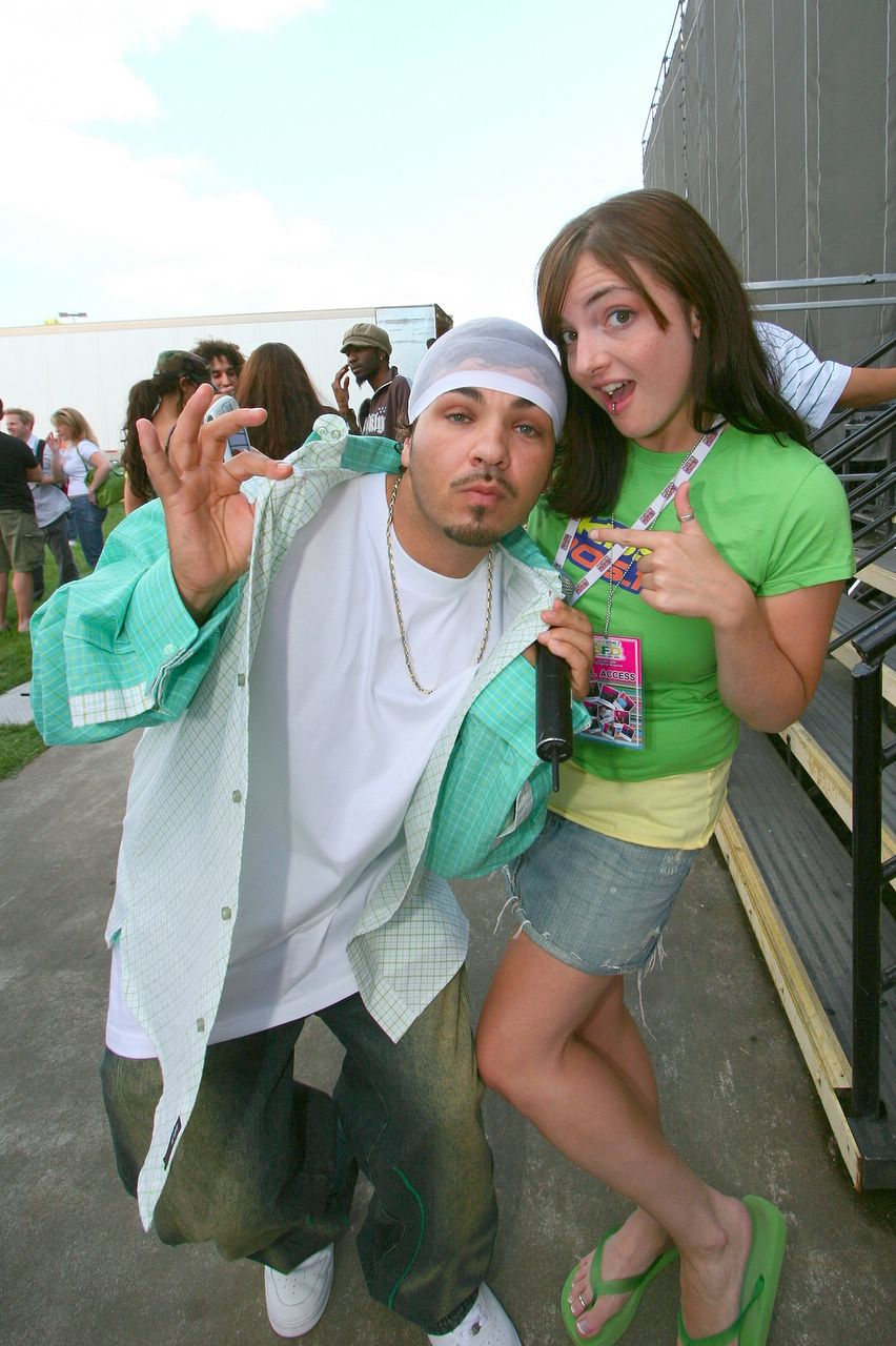 Baby Bash poses with a fan at the 106.1 KISS-FM BFD concert backstage, from Seattle, Washington